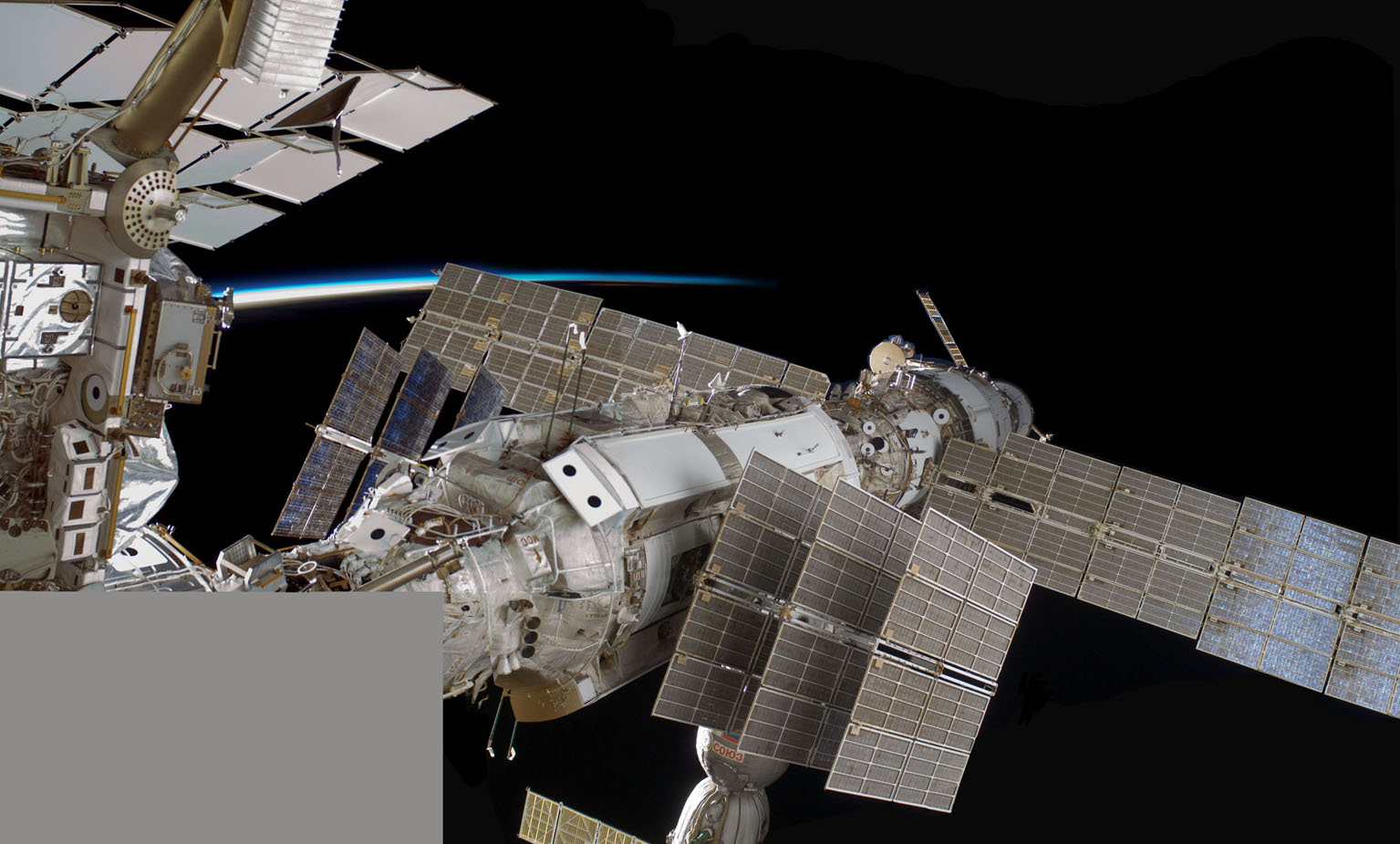 Composite photo of the Russian Segment of the International Space Station during docked activities with STS-128